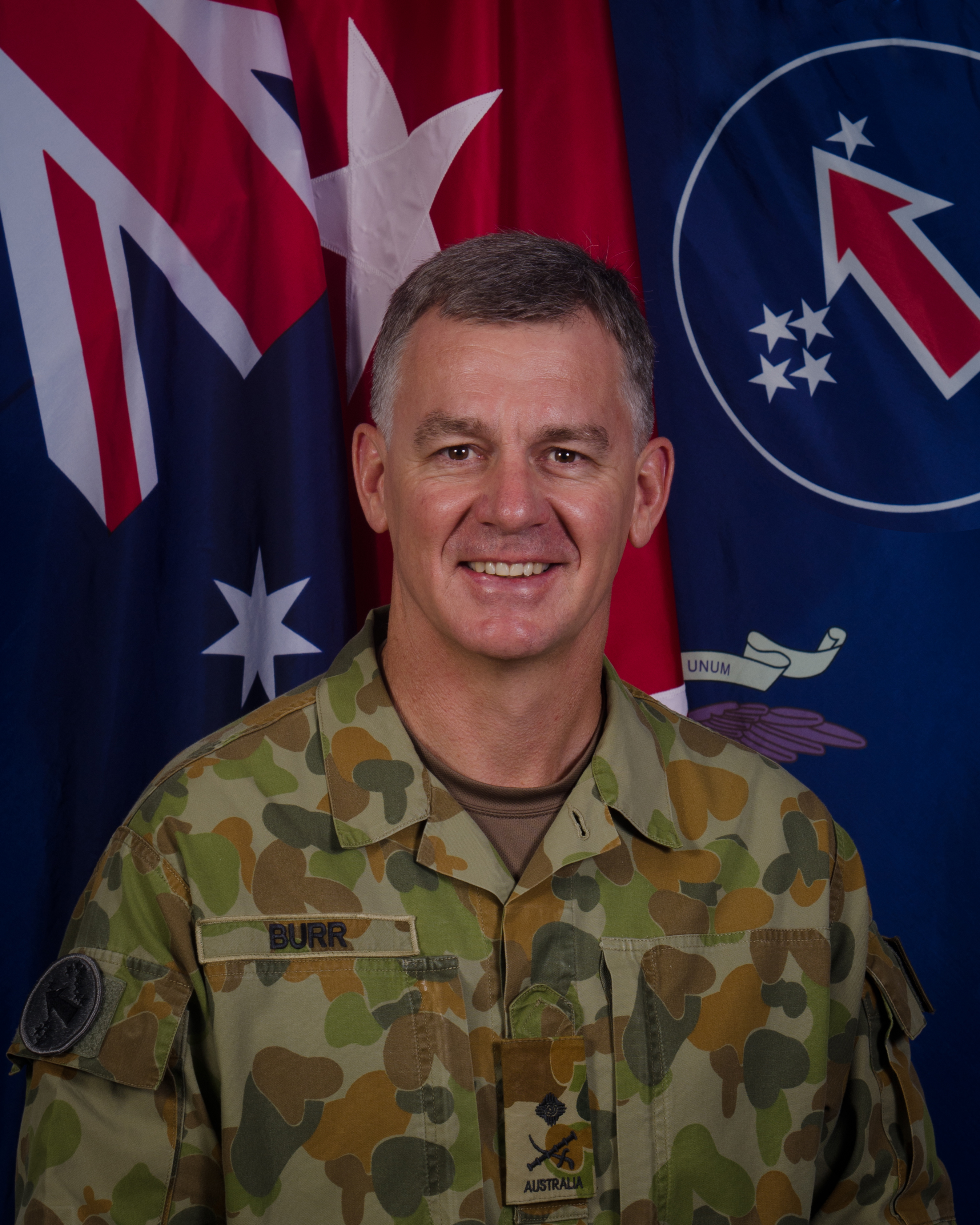 Australian Army Major General Richard "Rick" Burr, Deputy Commanding General (Operations) of U.S. Army Pacific.